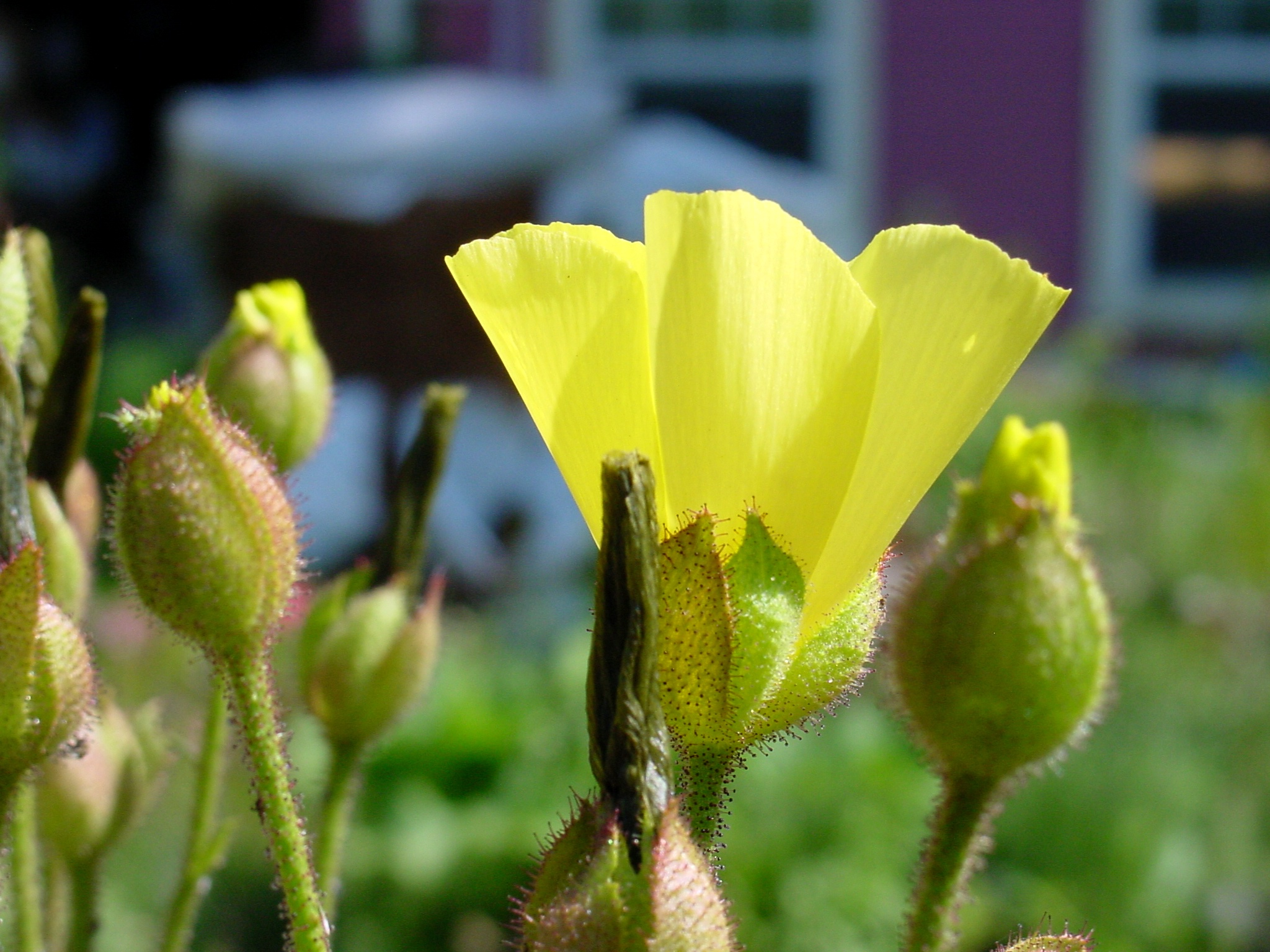 Description: Drosophyllum lusitanicum flower Photo taken by: Noah Elhardt